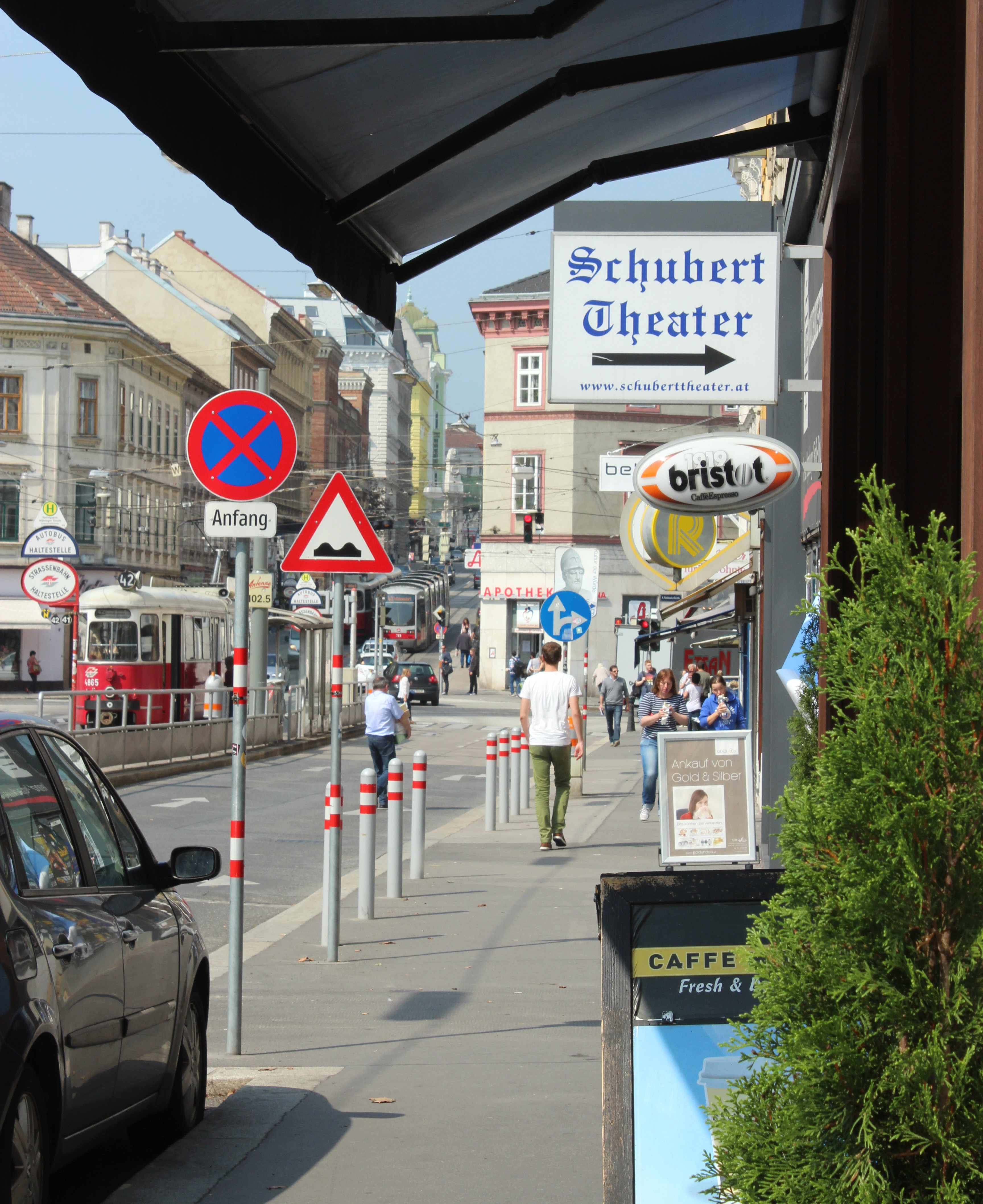 Just before the doorway to the Schubert Theater, looking up the Währinger Straße, Vienna.